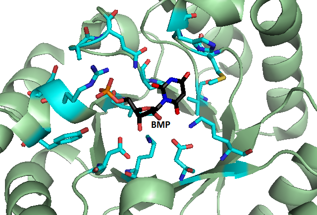 Pymol figure showing BMP Bound to the Active Site of OMP Carboxylase from M thermoautotrophicum from 1LOR